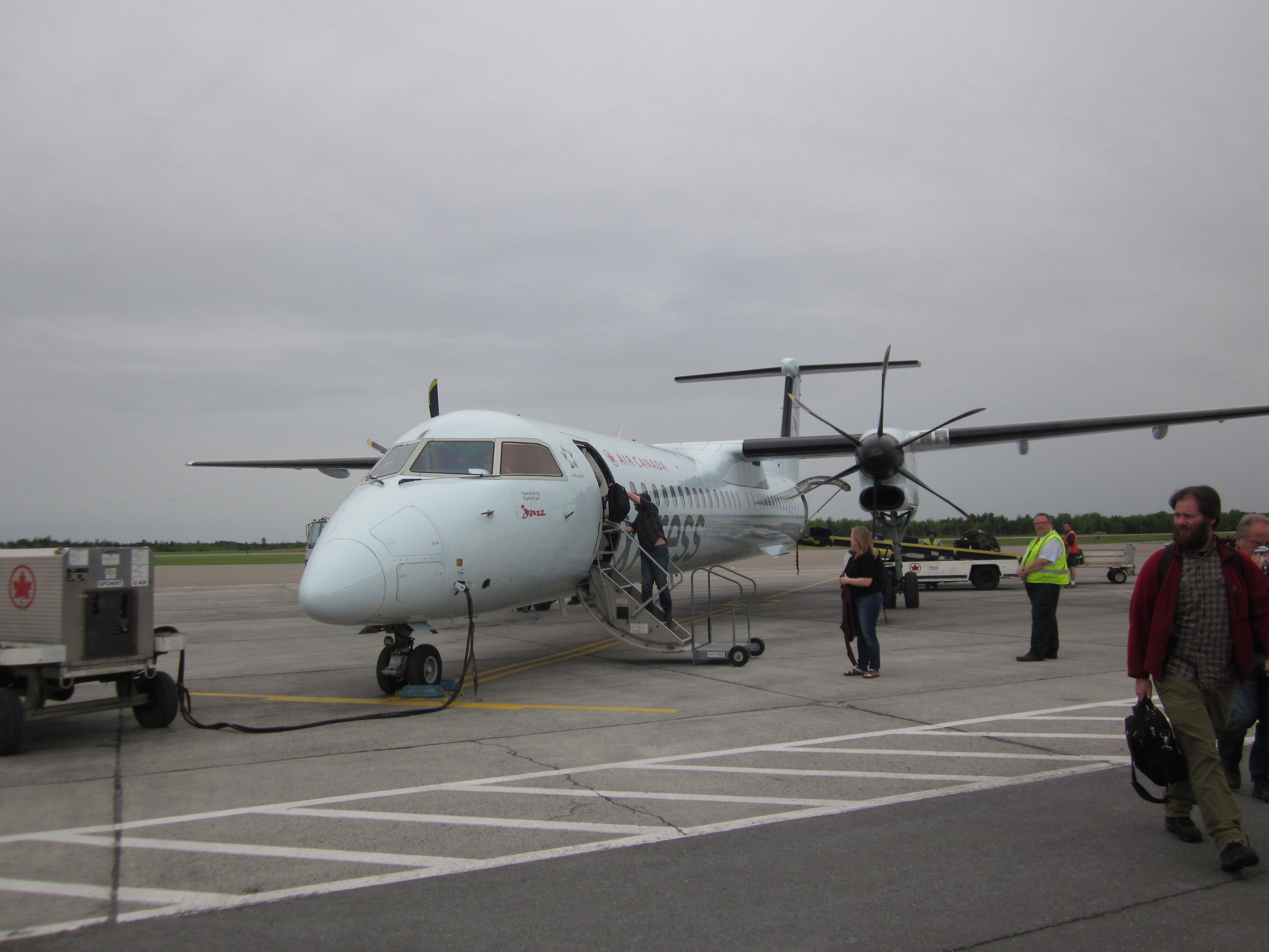 Fredericton Airport ramp